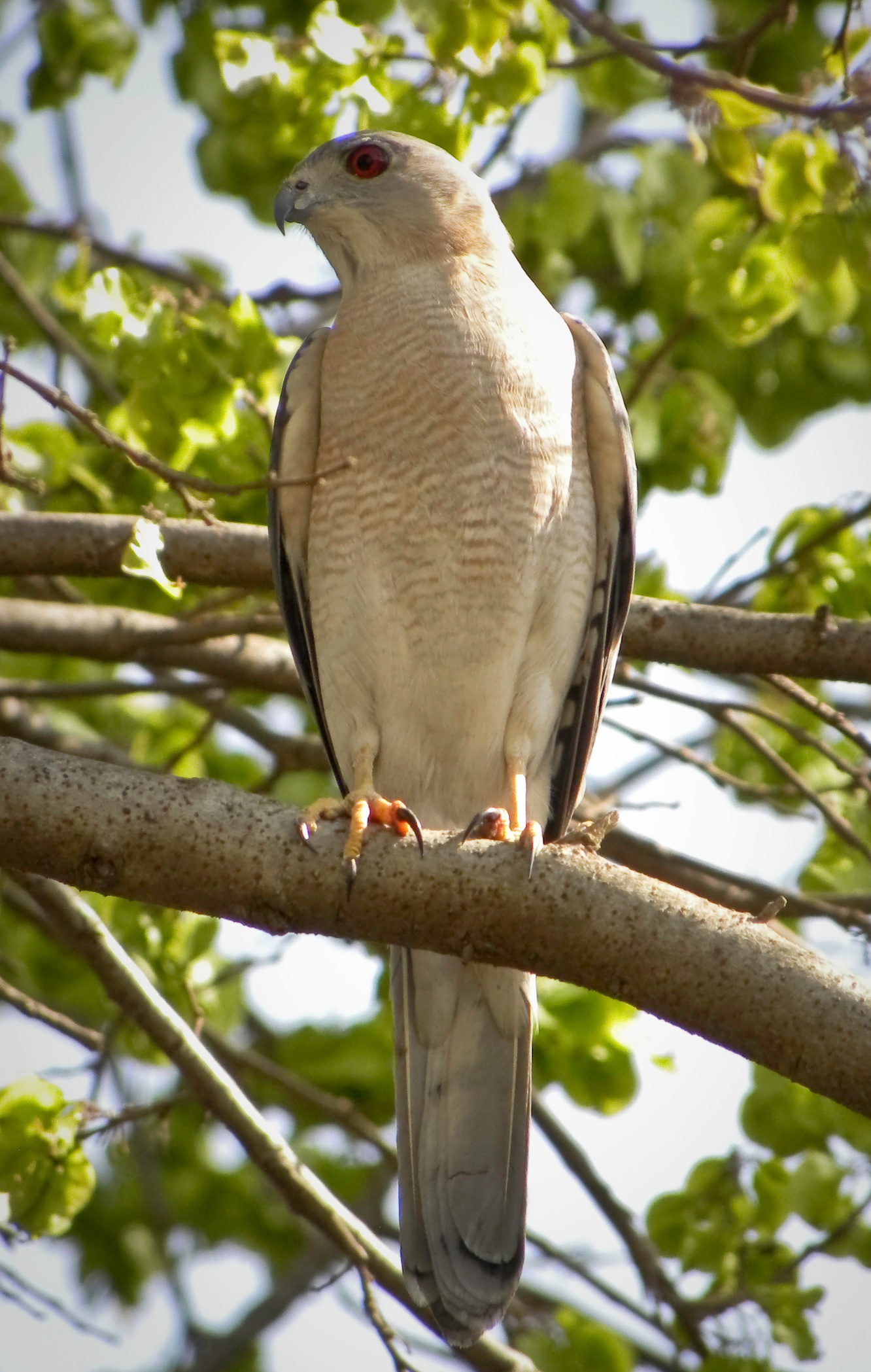 copyright Avadhesh Malik, India (2010)